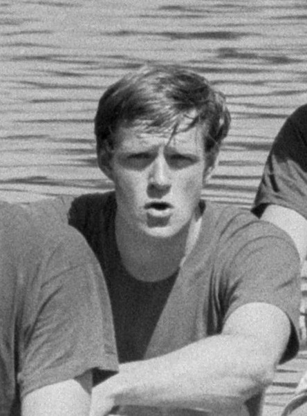 Roeiwedstrijden op Bosbaan, Lage 4 met stuurman, Van Woudenberg